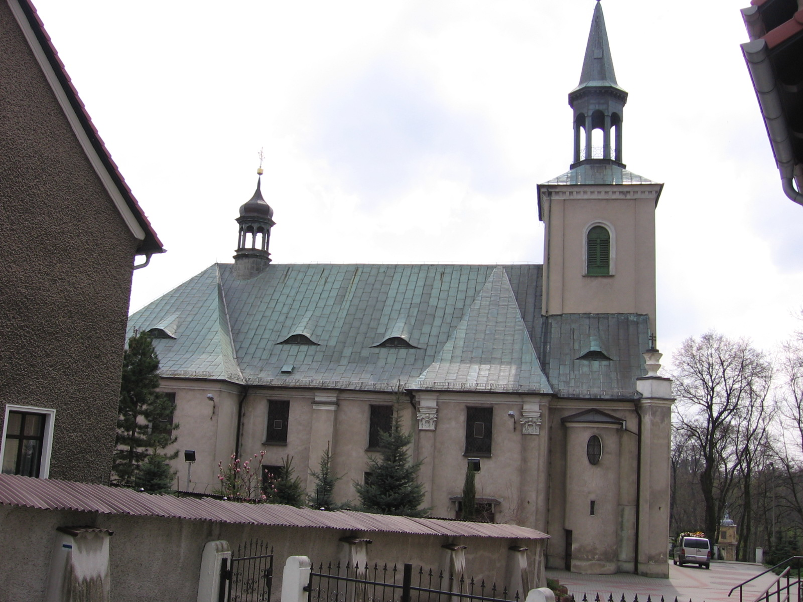 Church in Toszek